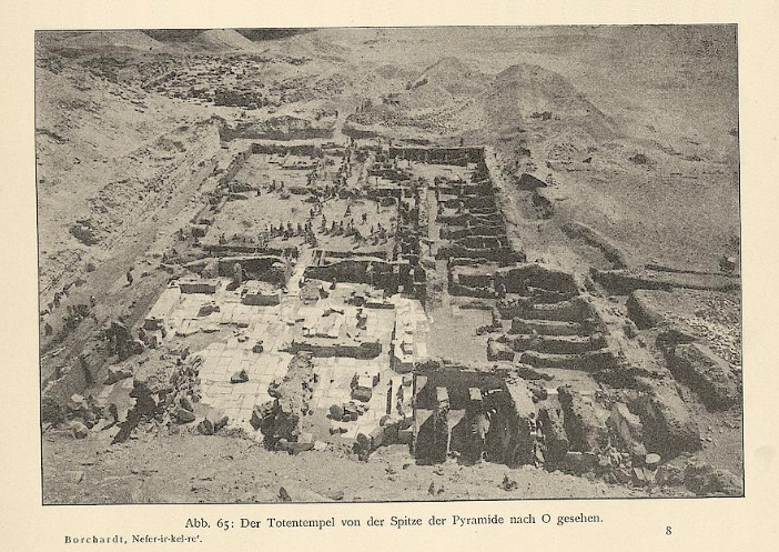 Photograph of the mortuary temple of Neferirkare's pyramid. Taken from Ludwig Borchardt's Das Grabdenkmal des Königs Nefer-ir-ka-re (1909).